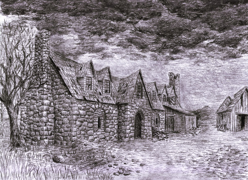 Forsaken Inn on the East Road.